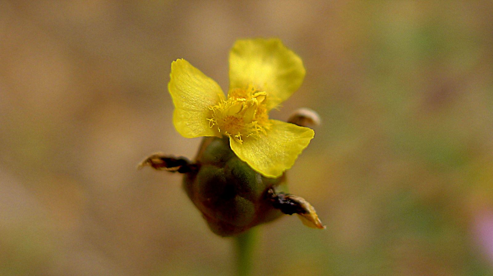 Xyris jupicai Rich., Xyridaceae, Atlantic forest, northeastern Bahia, Brazil Herb to 50 cm. Aquatic environment. Popovkin & Mendes 1258 (HUEFS).